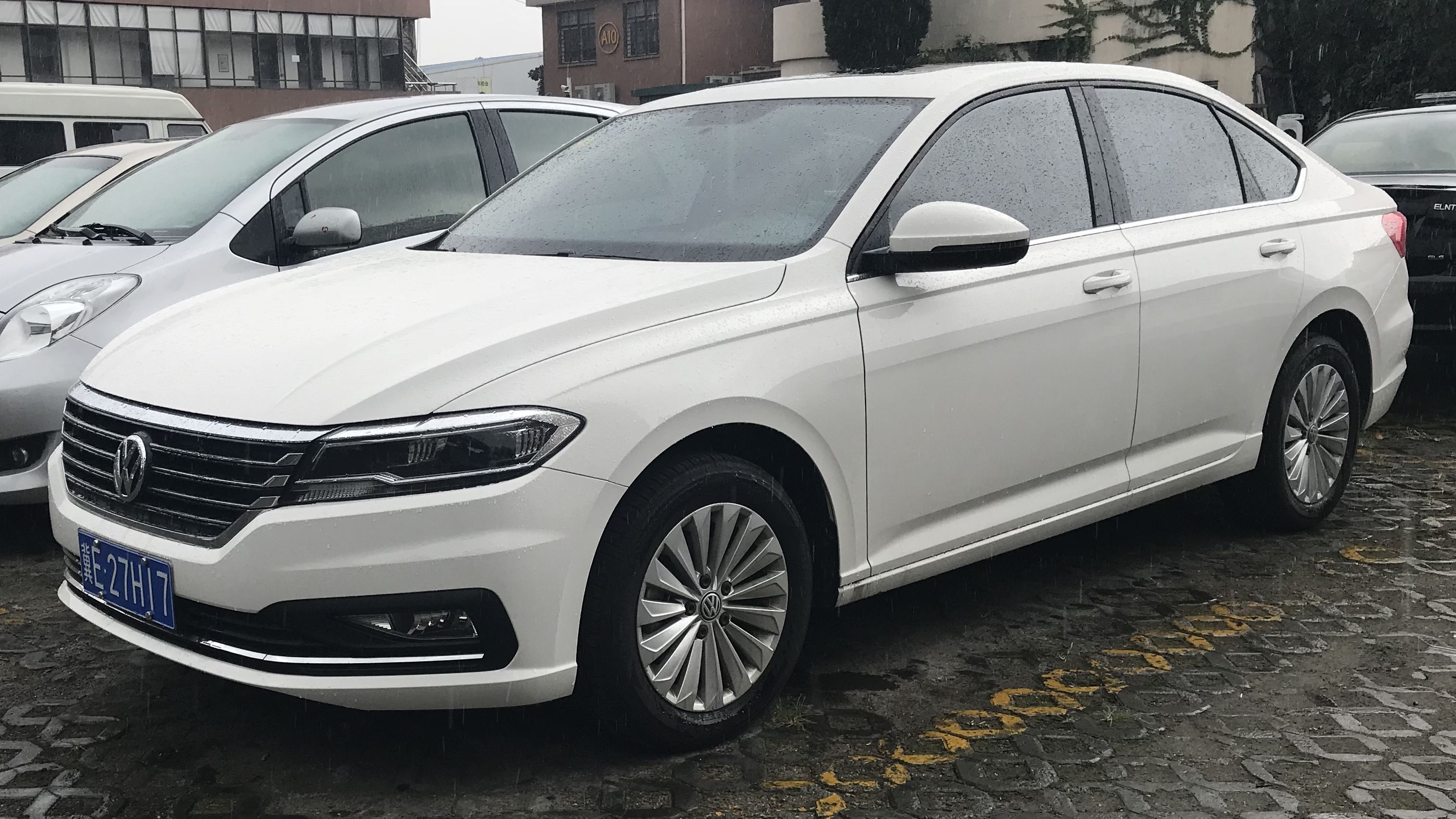 Volkswagen Lavida III